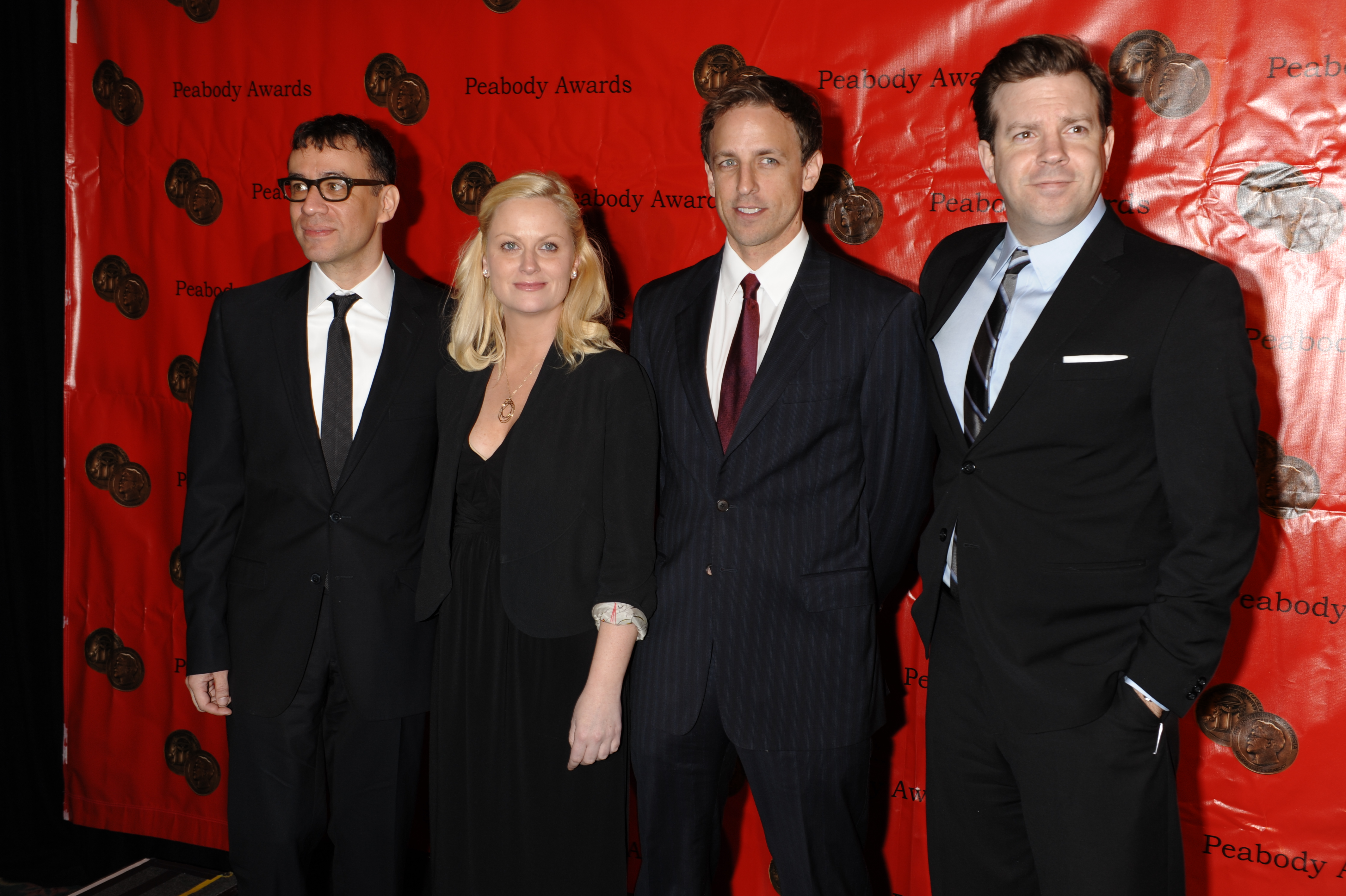 PHOTO CREDIT: ANDERS KRUSBERG / PEABODY AWARDS Fred Armisen, Amy Poehler, Seth Meyers and Jason Sudeikis 68th Annual Peabody Awards Luncheon Waldorf=Astoria Hotel New York, NY USA May 18, 2009